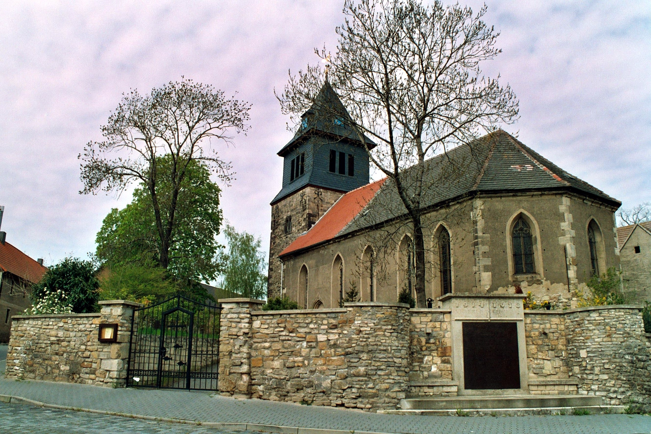 Wansleben am See (Seegebiet Mansfelder Land), the village church